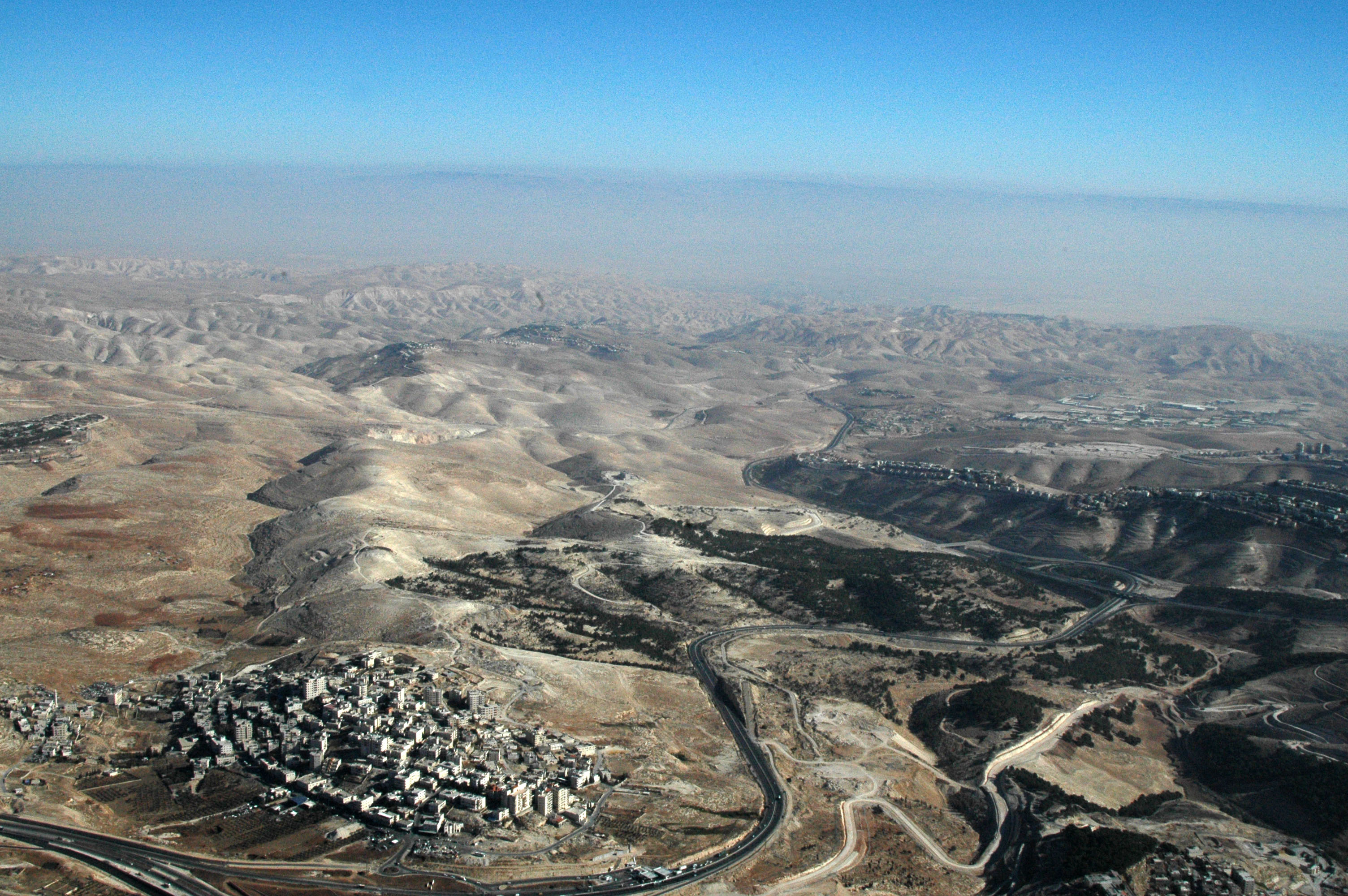 over the West Bank